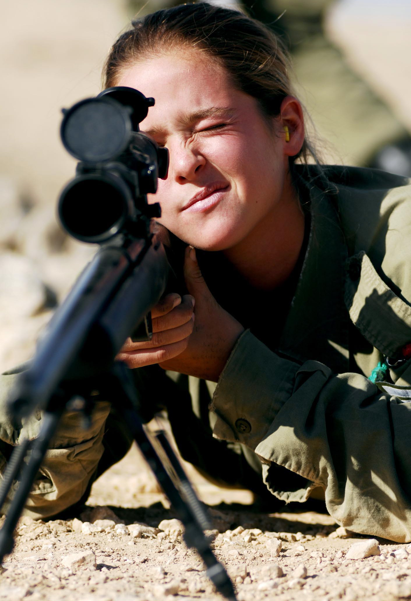 The Field Training Week in Southern Israel, part of the IDF Infantry Instructors course, includes individual and group drills, navigation practice, sleeping in the field and camouflage training. At the end of the course the female soldiers will be placed in different positions, instructing IDF Ground Forces. Featured as Photo of the Day on August 28, 2011. Official Facebook page of the Israel Defense Forces The Israel Defense Forces blog Follow us on our Official Twitter